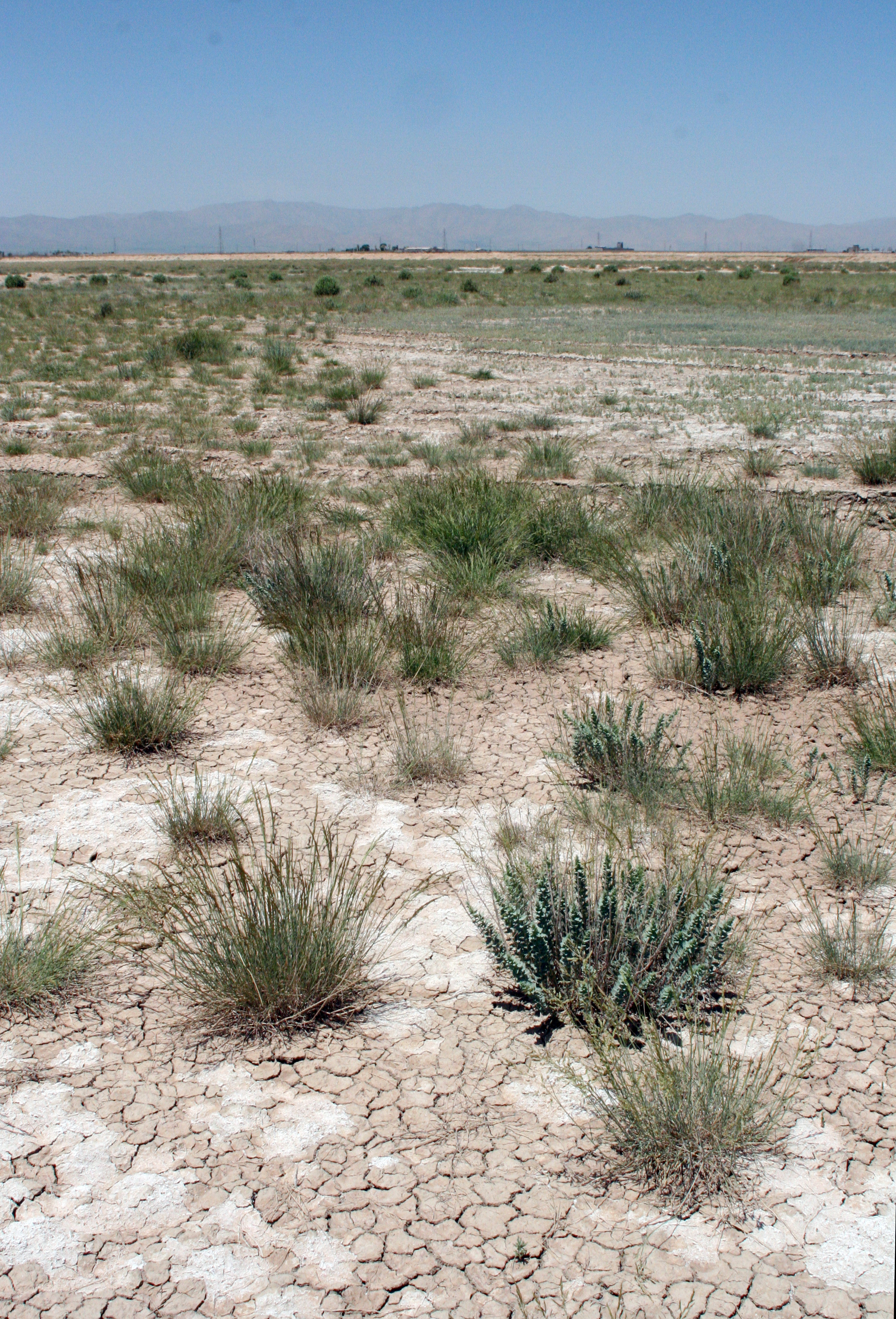 Meyghan Lake bank in Iran